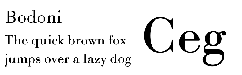 english pangram in typeface Bodoni